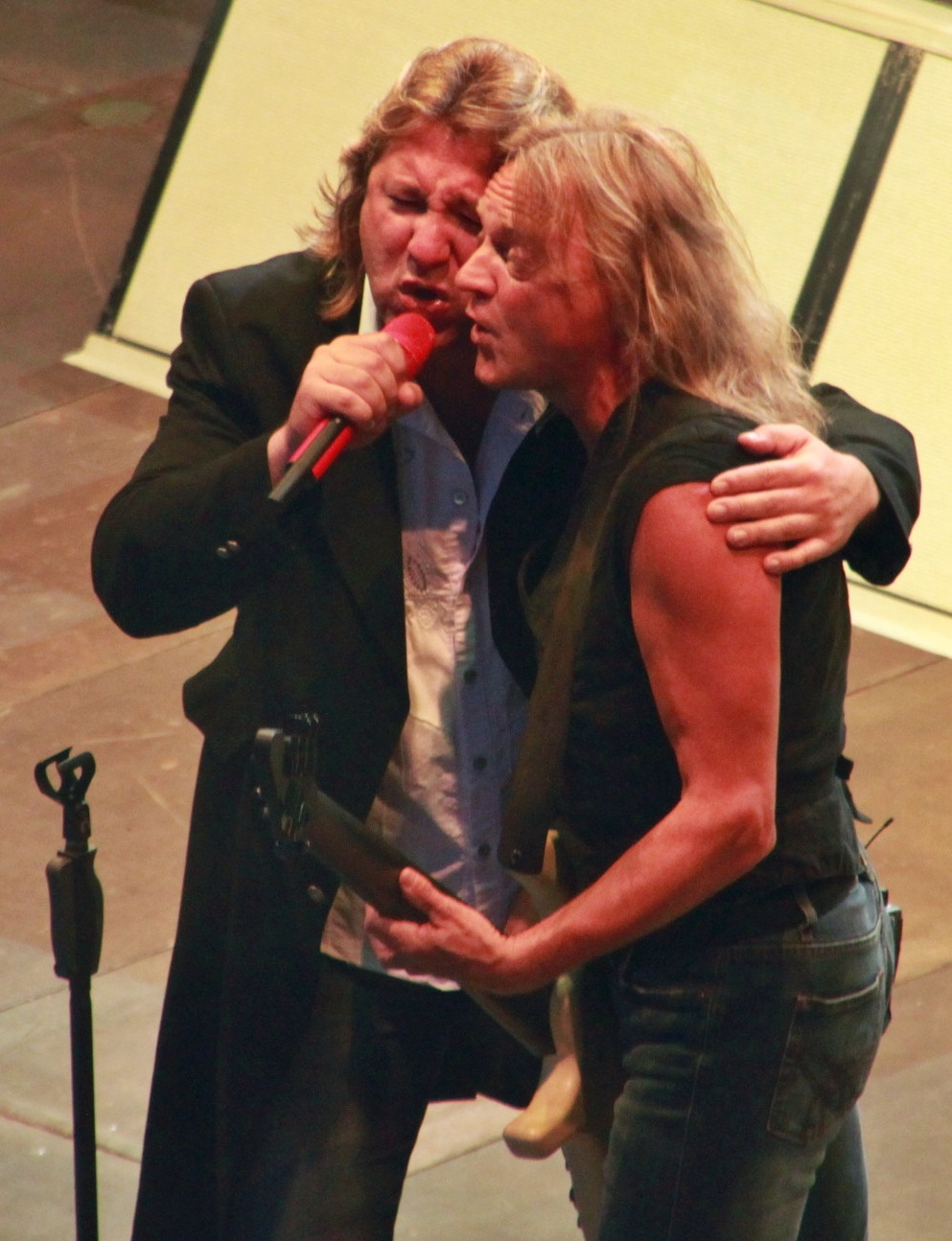 Claudius Dreilich (born 1970) [left], vocalist of the german rock band "Karat", and Christian Liebig (born 1954), bass guitarist of "Karat", during a concert in Pirna.